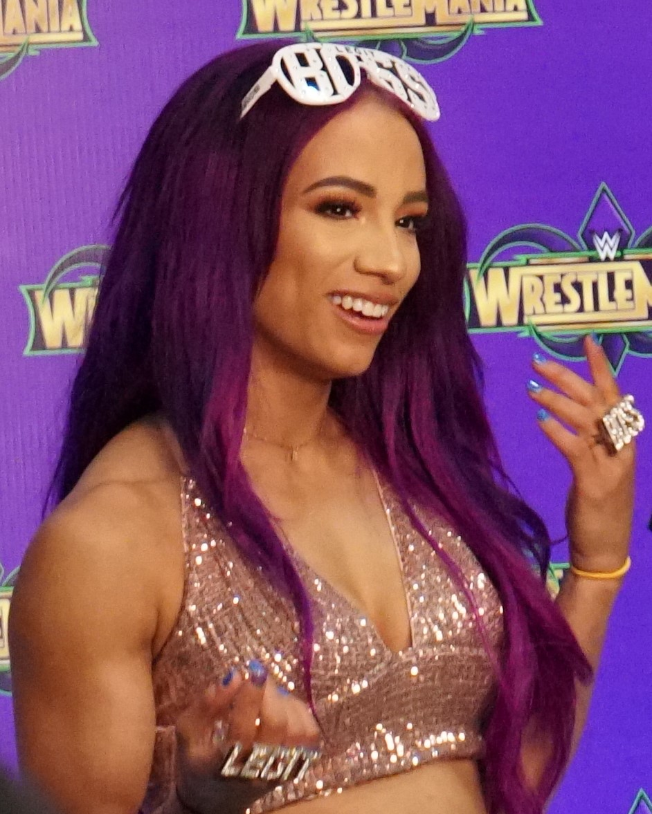 Sasha Banks posing at Axxess in April 2018.